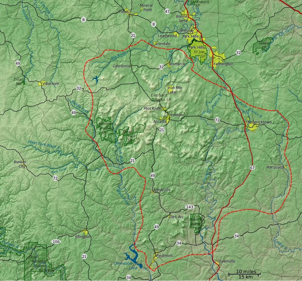 Detailed shaded relief map of the St. Francois Mountains. The red dashed line delineates the St. Francois Mountain physiographic region as delineated in "Landforms of Missouri", Walter A. Schroeder, 1990. Metadata for the GIS data file: Title of Content: Landforms of Missouri Content Publisher: University of Missouri Publication Place: Columbia, Missouri Publication Date: 1990 Content Summary: Geo-dataset delineating the landforms of Missouri. Content Purpose: Generally used in the physical and natural sciences for spatial analysis. Supplemental Information: Procedures_Used: Manually drawn by Walter A. Schroeder in 1990. Digitization at the Missouri Dept. of Conservation. Edited and corrected at the Geographic Resources Center. Revisions: Revised by James D. Harlan, August 2000. Reviews_Applied_to_Data: Reviewed by James D. Harlan, August 2000. Related_Spatial_and_Tabular_Data_Sets: none Other_References_Cited: Walter A. Schroeder Notes: none st_lndfm.e00.gz